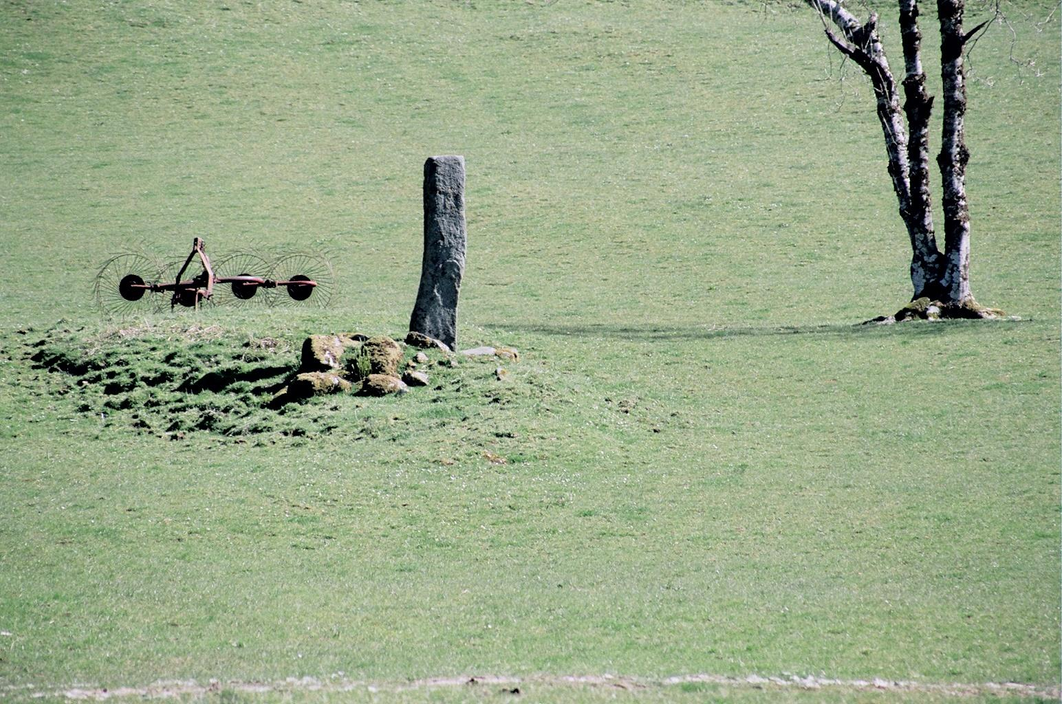 The Stone of the Ancient Church